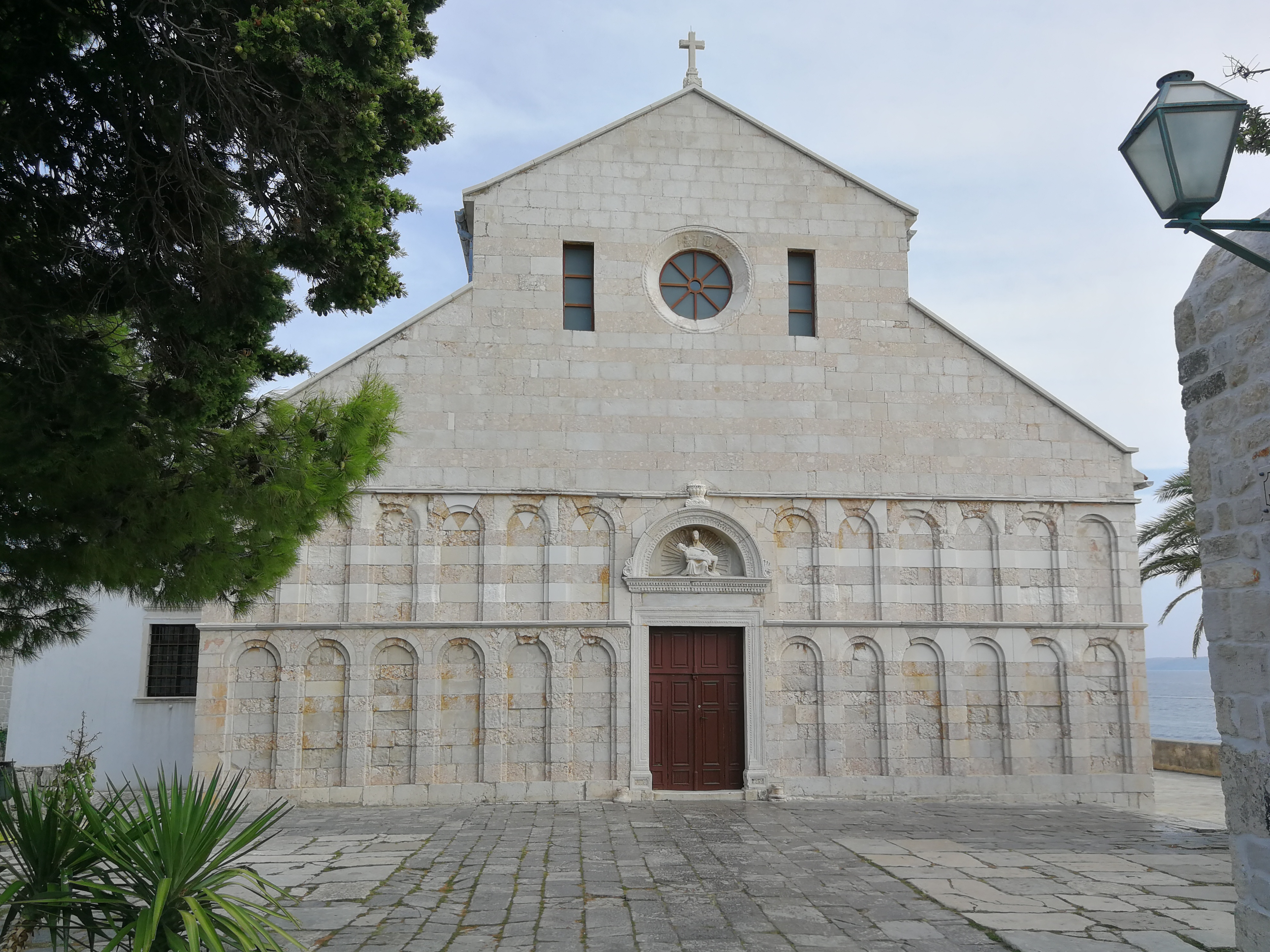 Western facade of the Cathedral of the Assumption of the Blessed Virgin Mary (Rab)